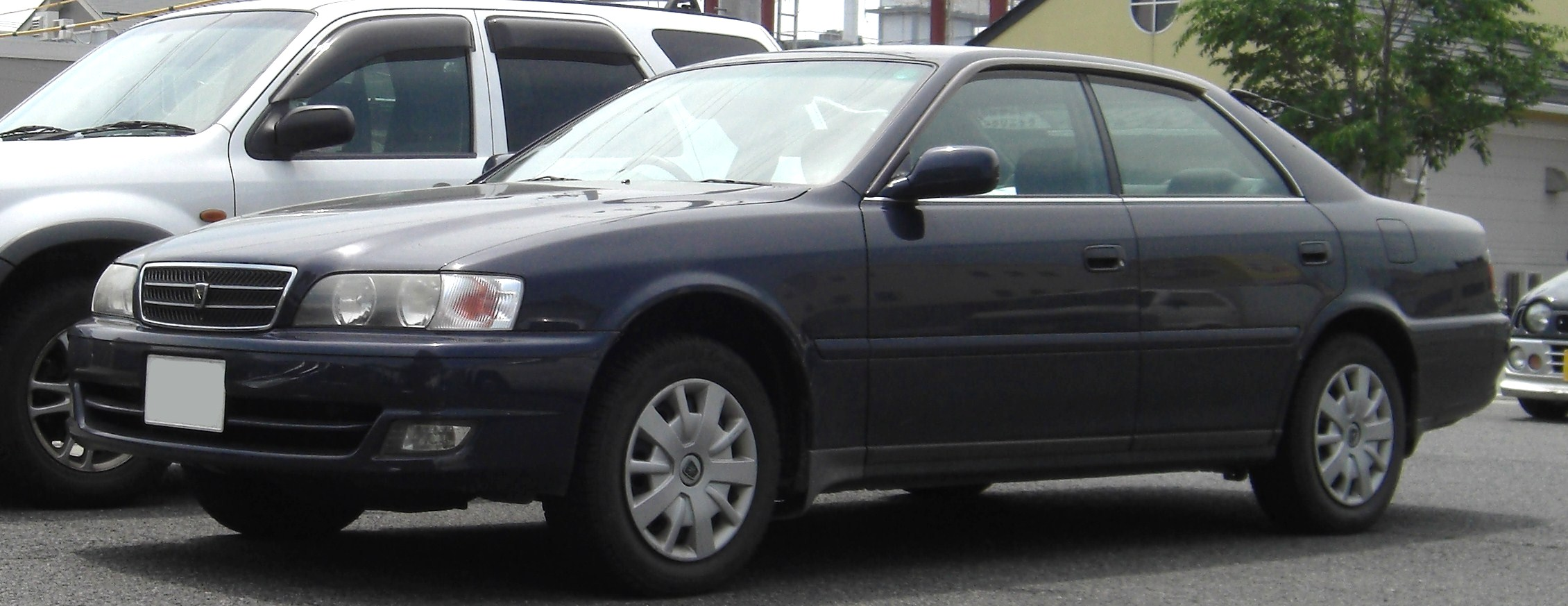 Toyota Chaser